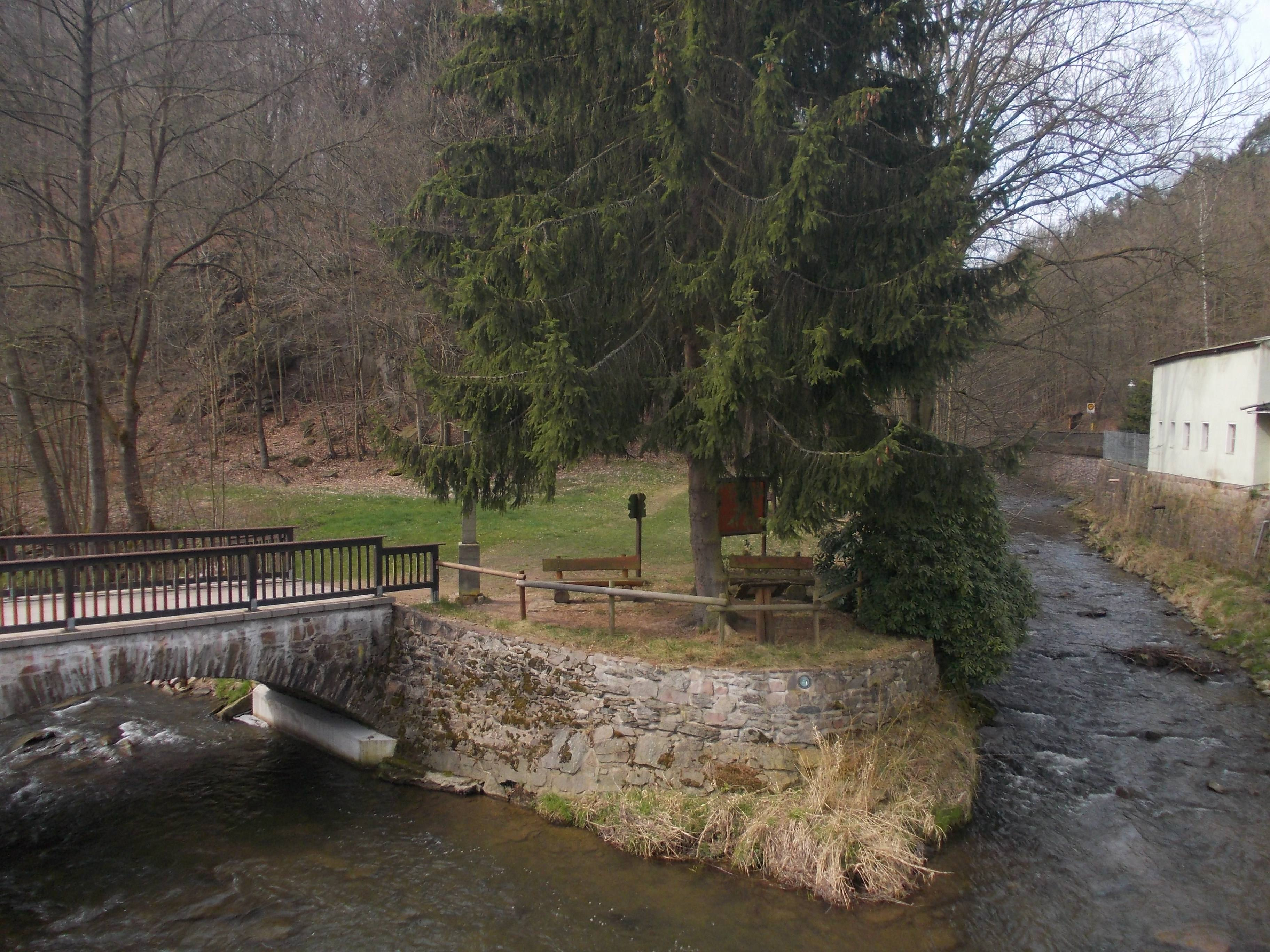 Confluence of the rivers Kleine Striegis and Grosse Striegis in Berbersdorf (Striegistal, Mittelsachsen district, Saxony), forming the Striegis river